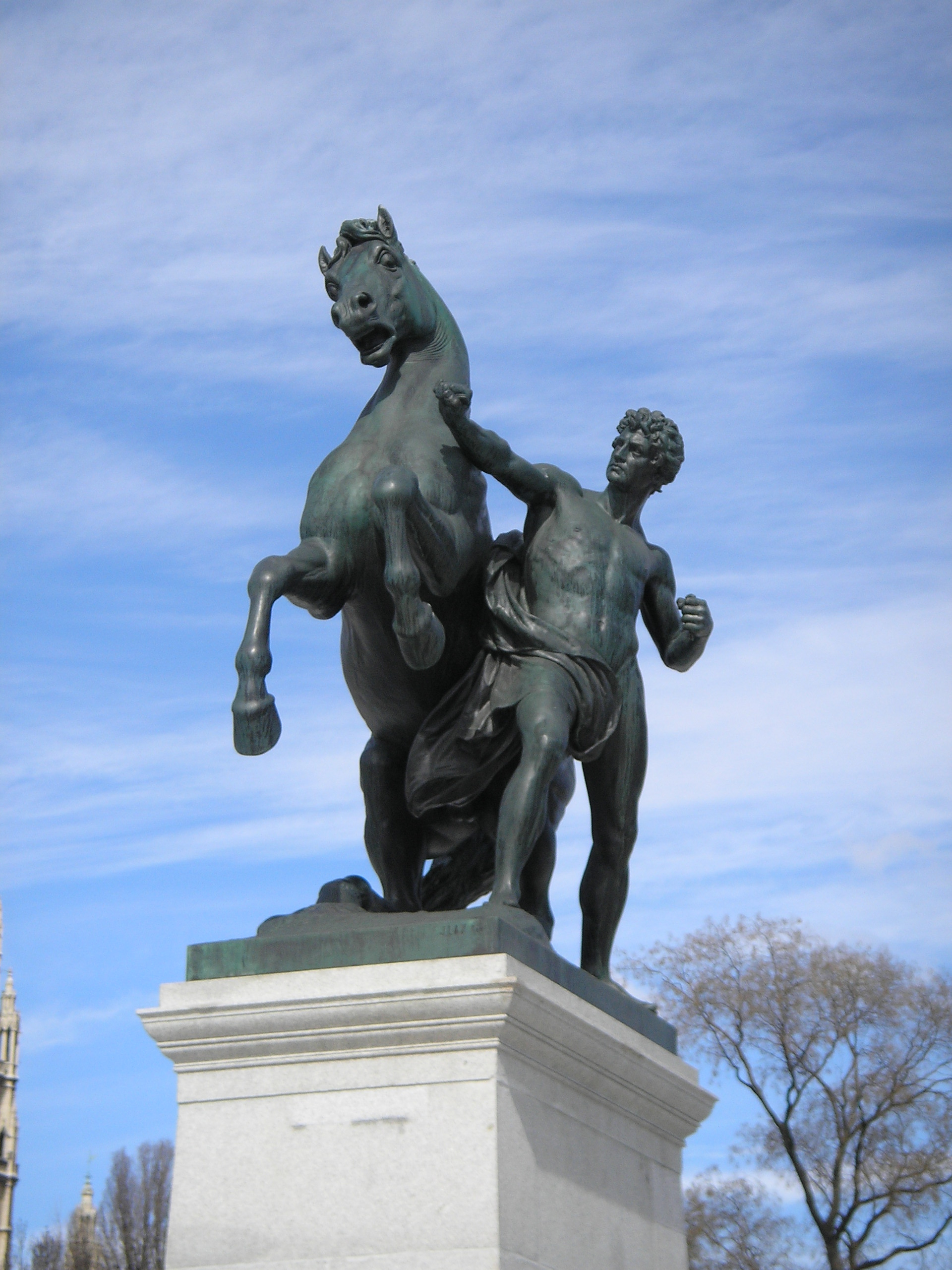 Austria, Vienna, Austrian Parliament Building